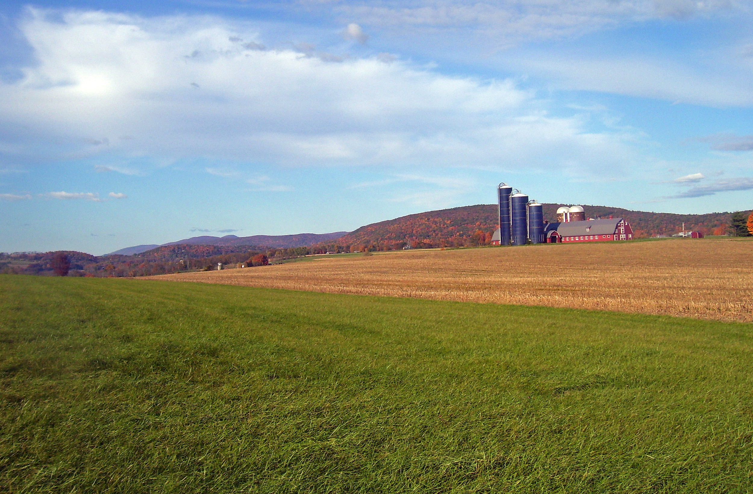 Rural landscape in Coleman Station, NY, USA, looking north toward Brace Mountain